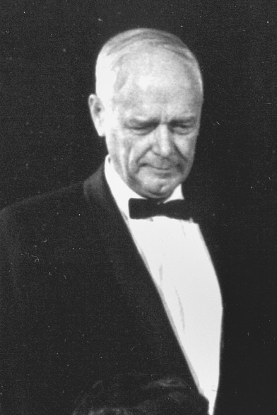 Charles Augustus Lindbergh in 1968